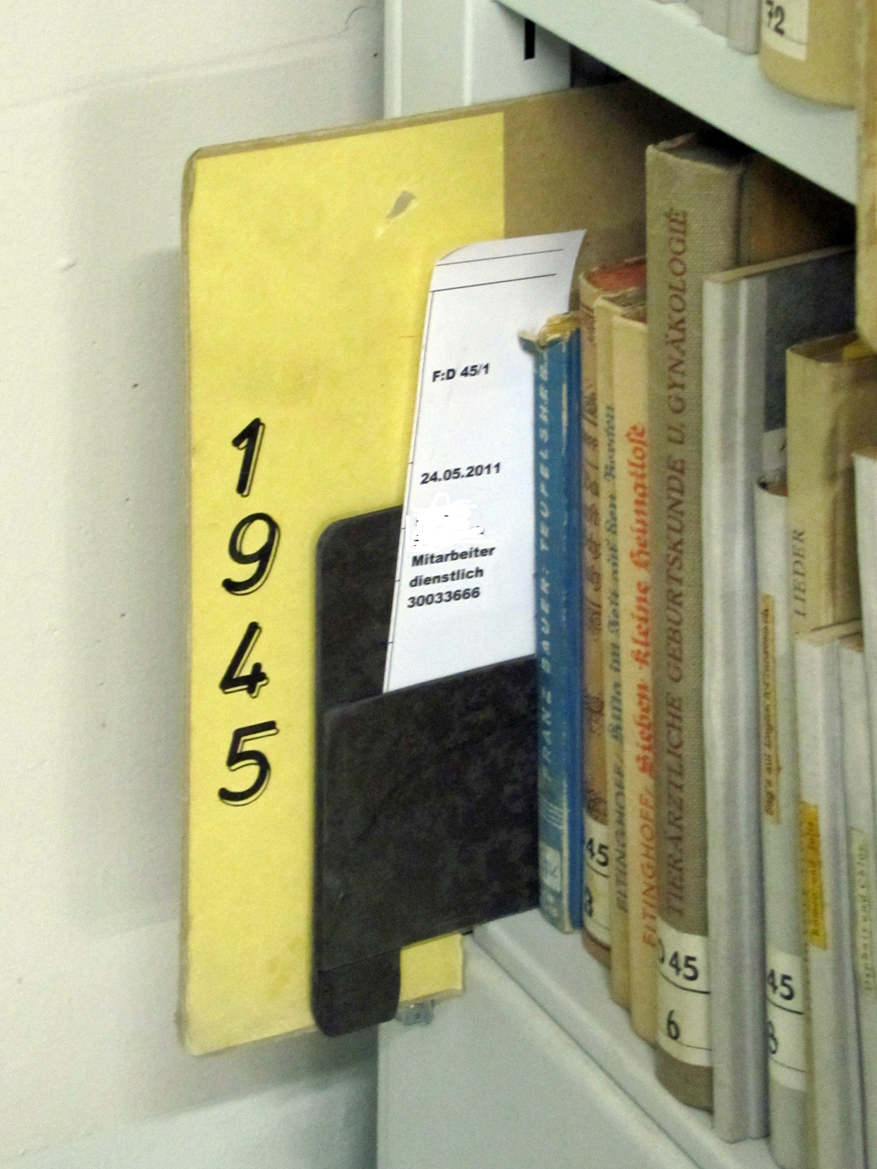 "Deutsche Nationalbibliothek" (German National Library), department Frankfurt am Main, magazin at basement, first German books after World War II.